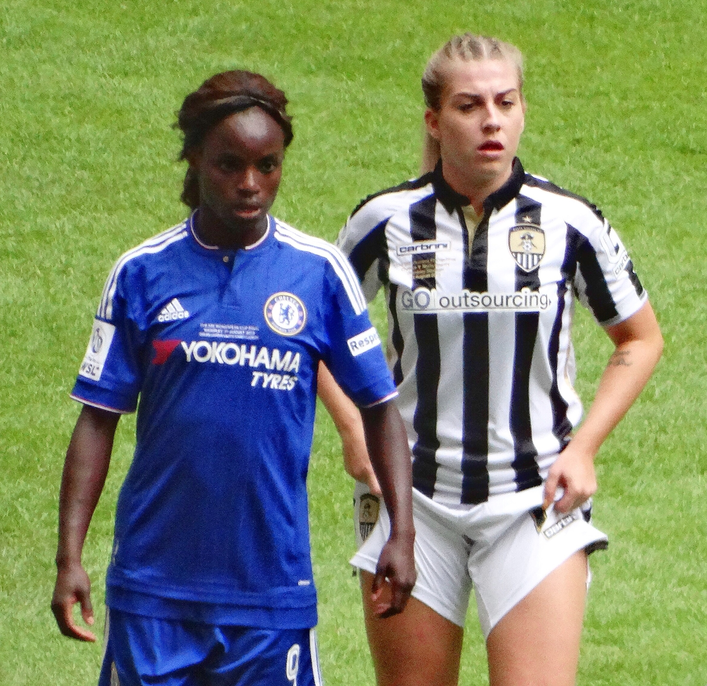 Sophie Walton pulls up shorts while marking Eni Aluko.